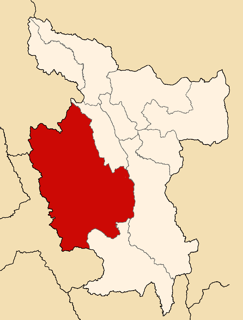 Location of the province Mariscal Caceres in the San Martín region in Peru (Map)